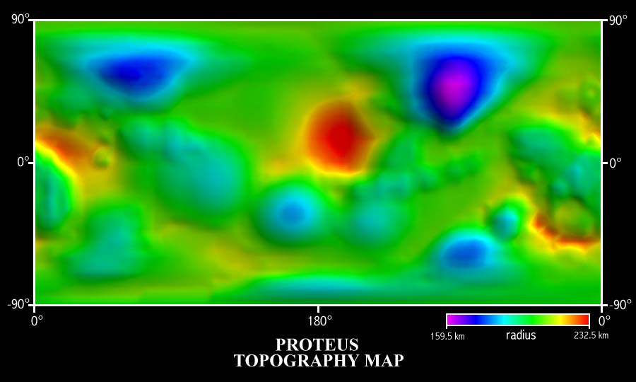 This is a topographic map of Proteus It is based upon the shape model of Phil Stooke. As with all maps, it is the cartographer's interpretation; not all features are necessarily certain given the limited data available. This interpretation stretches the data as far as possible.